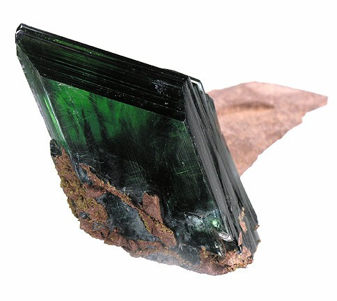 Vivianite Locality: Tomokoni mine, Machacamarca District (Colavi District), Cornelio Saavedra Province, Potosí Department, Bolivia (Locality at ) Size: 4.3 x 3.8 x 2.6 cm. This mine has produced some of the finest quality Vivianite specimens ever seen. This miniature size piece features a beautiful, lustrous, gem quality, emerald-green, sword-shaped "textbook" crystal of Vivianite with minor reddish-brown metamorphosed Sandstone.